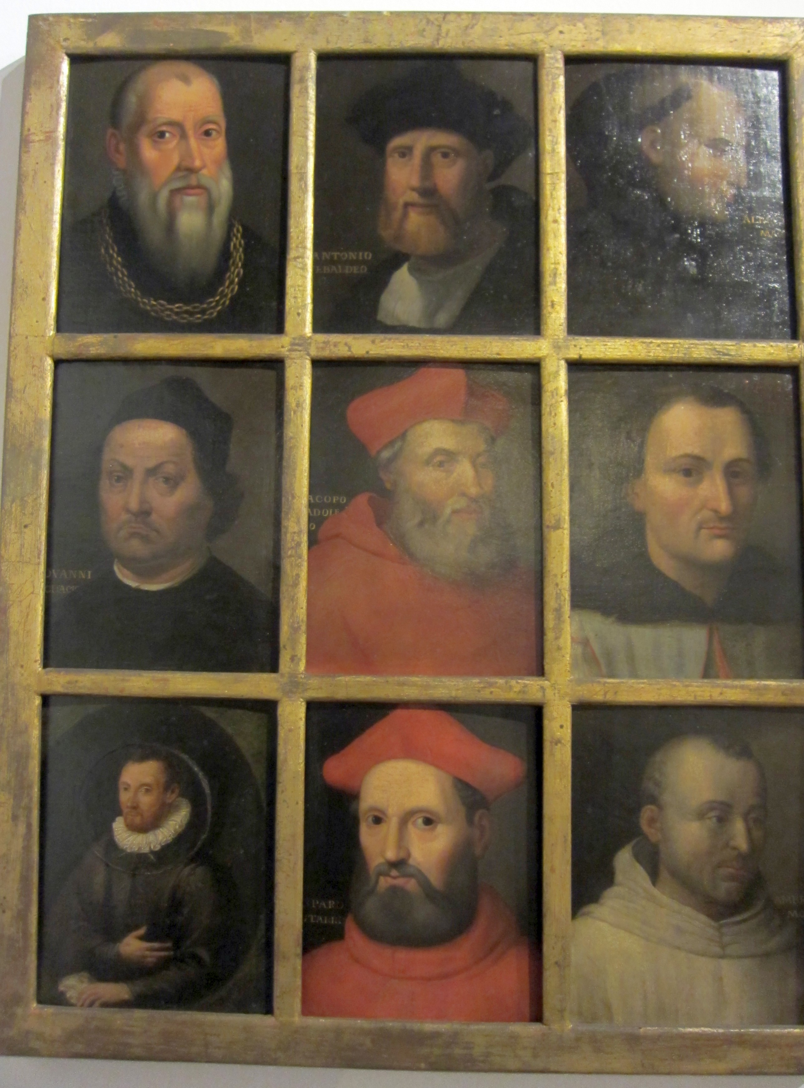 Painting in Musei Civici di Monza Pittore Anonimo Ritratto di vecchio ignoto Ritratto di Antonio Tebaldeo Ritratto di Alberto Magno Ritratto di Giovanni Boccaccio Ritratto di Jacopo Sadoleto Ritratto di Paolo Giovo Ritratto di ignoto Ritratto di Gasparo Contarini Ritratto di Ambrogio Traversari